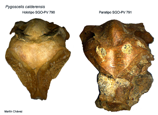 Skulls of Pygoscelis calderensis